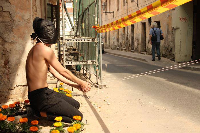 Denisas Kolomyckis performance on gender equality - 'Calling Edge'